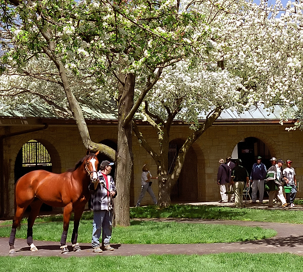 Lexington Kentucky - Keeneland Race Track "Paddock In Spring"